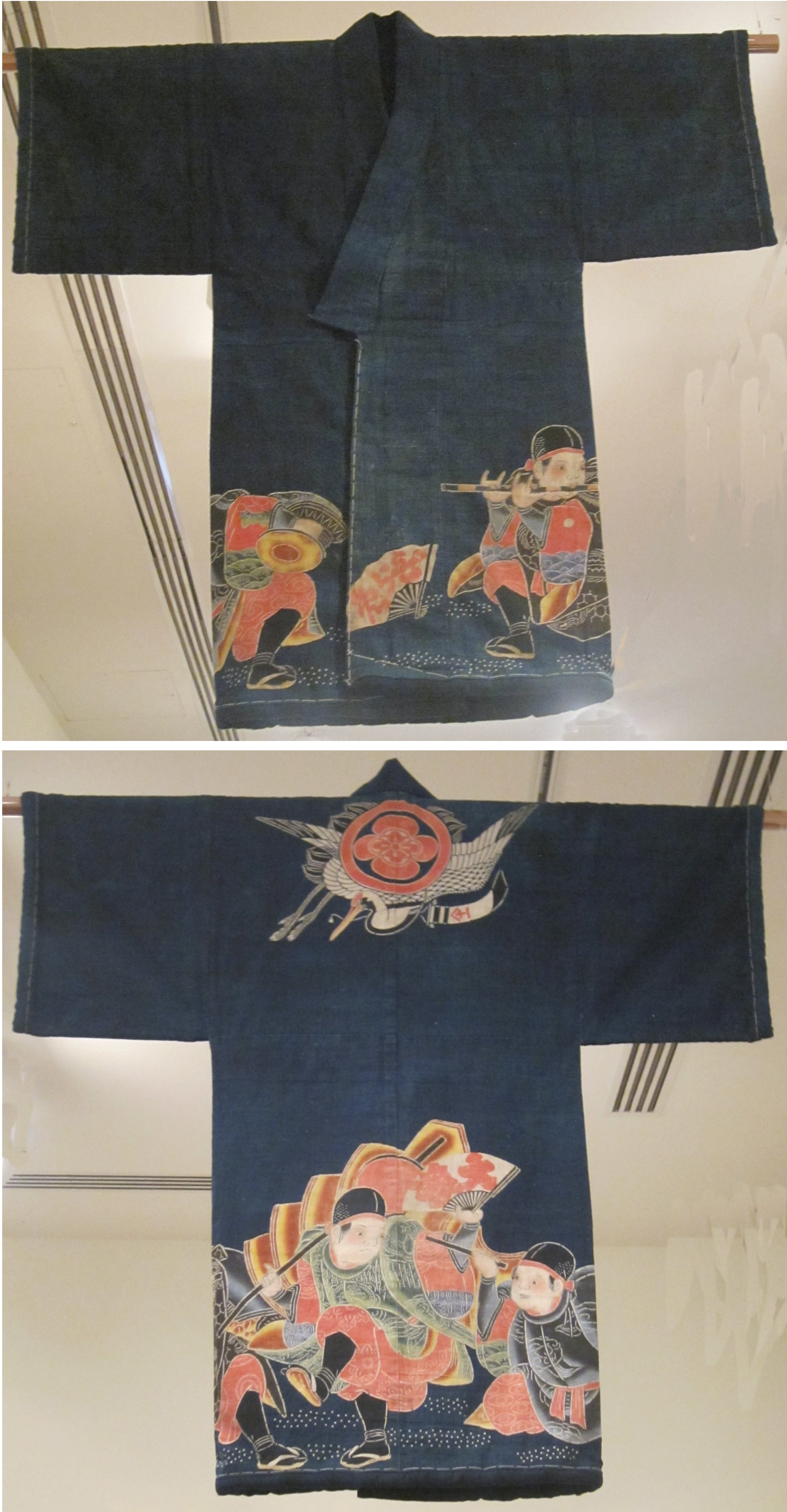 Maiwai (fisherman’s ceremonial jacket) from Japan, early 20th century, cotton, plain weave, katazome (stencil paste resist), painted and dip-dyed in indigo, Honolulu Museum of Art